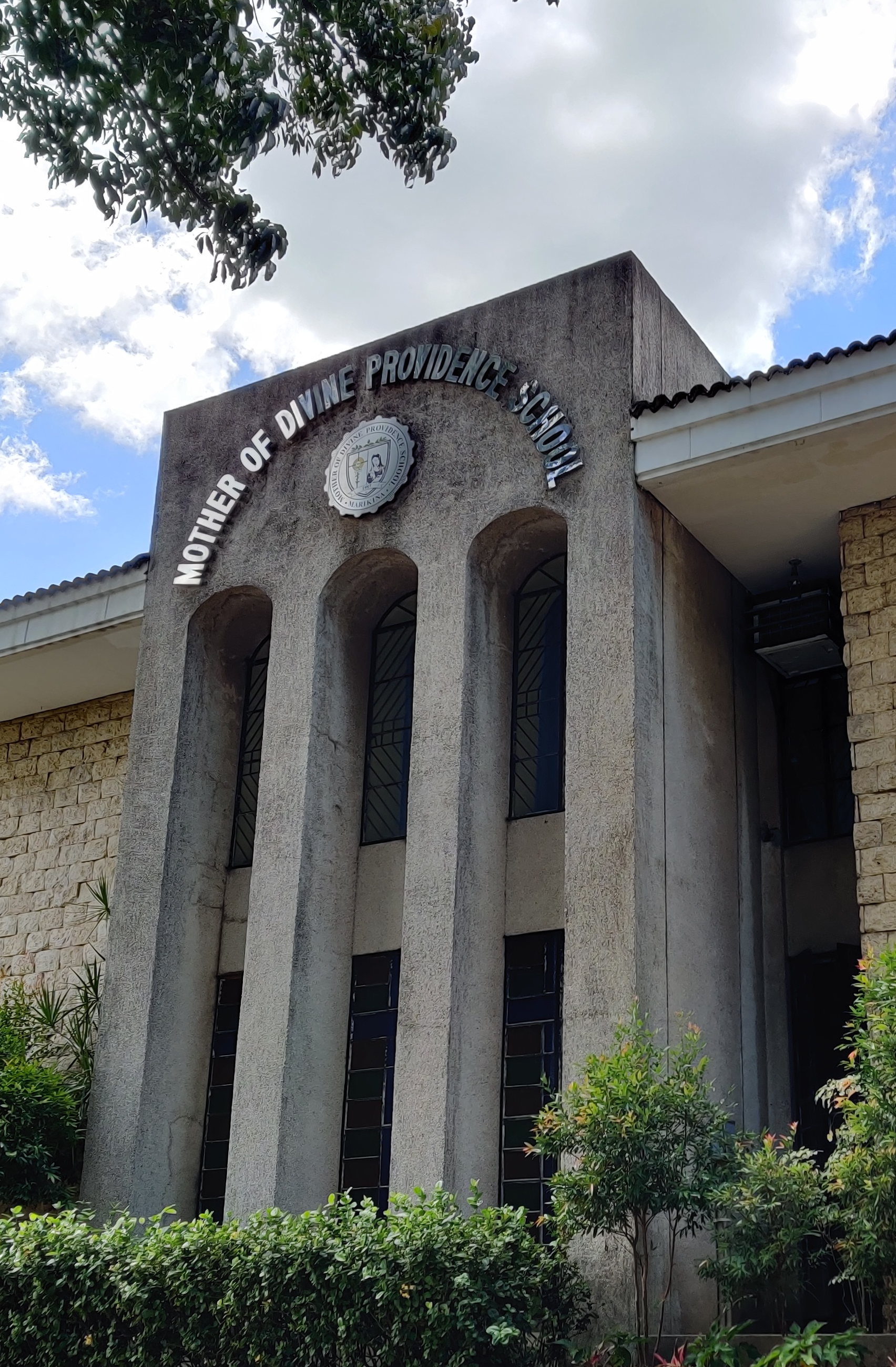 Facade of the High School Building.